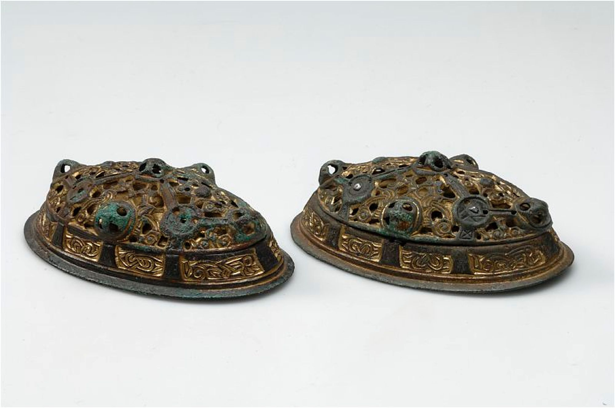 Viking-age tortoise brooches from a grave in Hemlanden, Birka (Sweden).